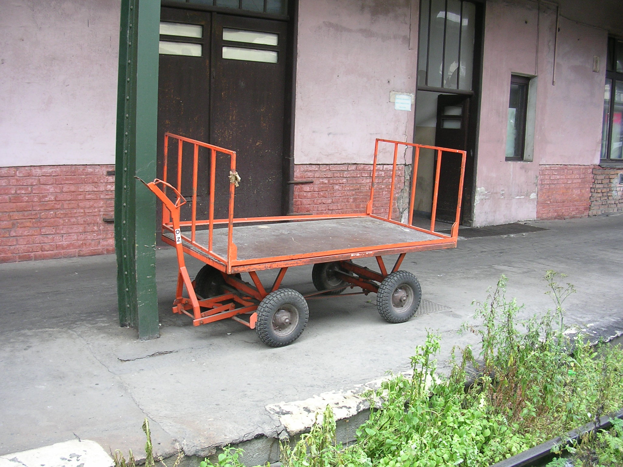 Praha Masarykovo nádraží, train station in Prague, the Czech Republic. Baggage cart.